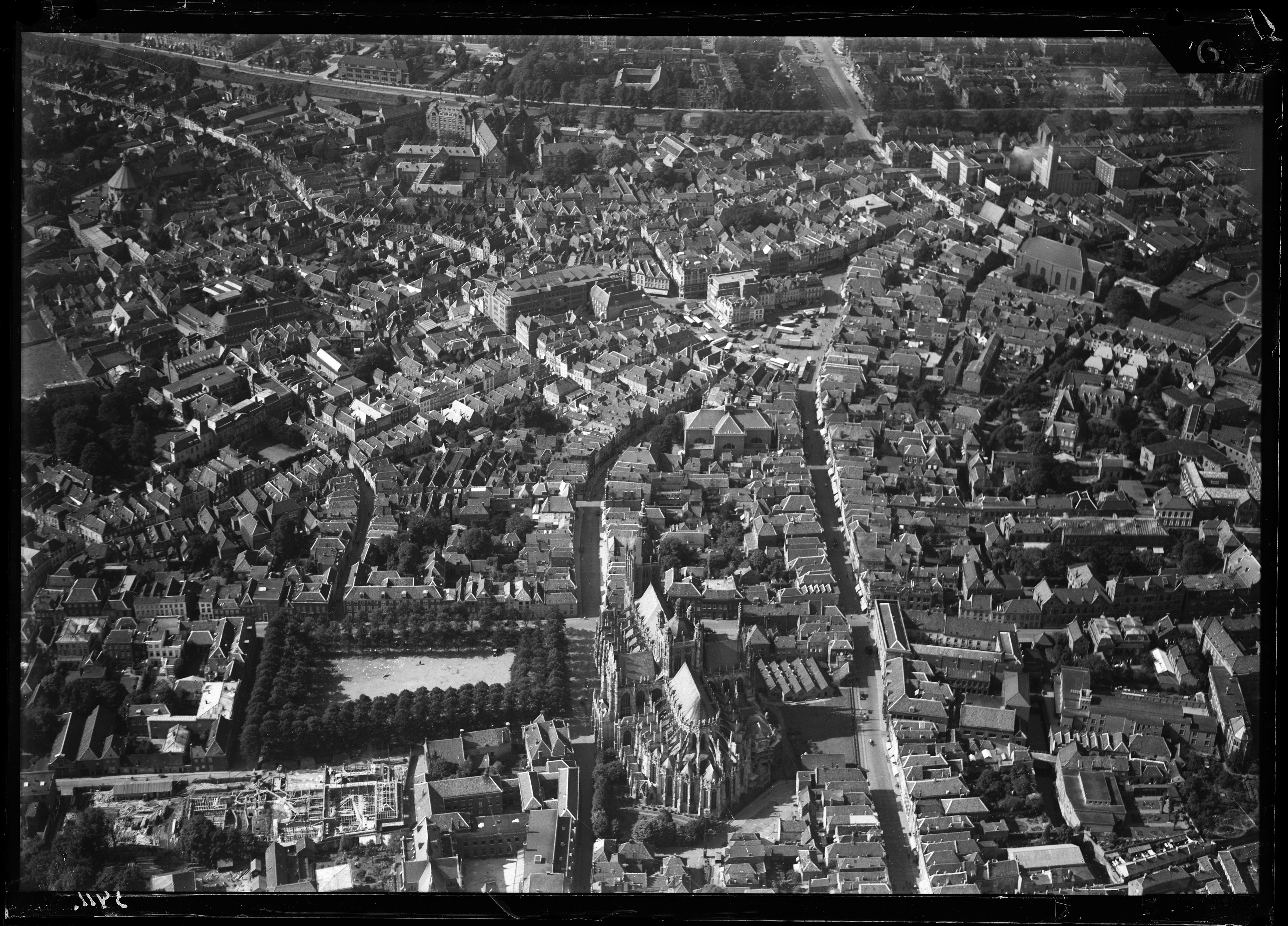 Aerial photograph of 's-Hertogenbosch, The Netherlands